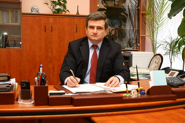 Photography of Rector of Bukovinian State Medical University